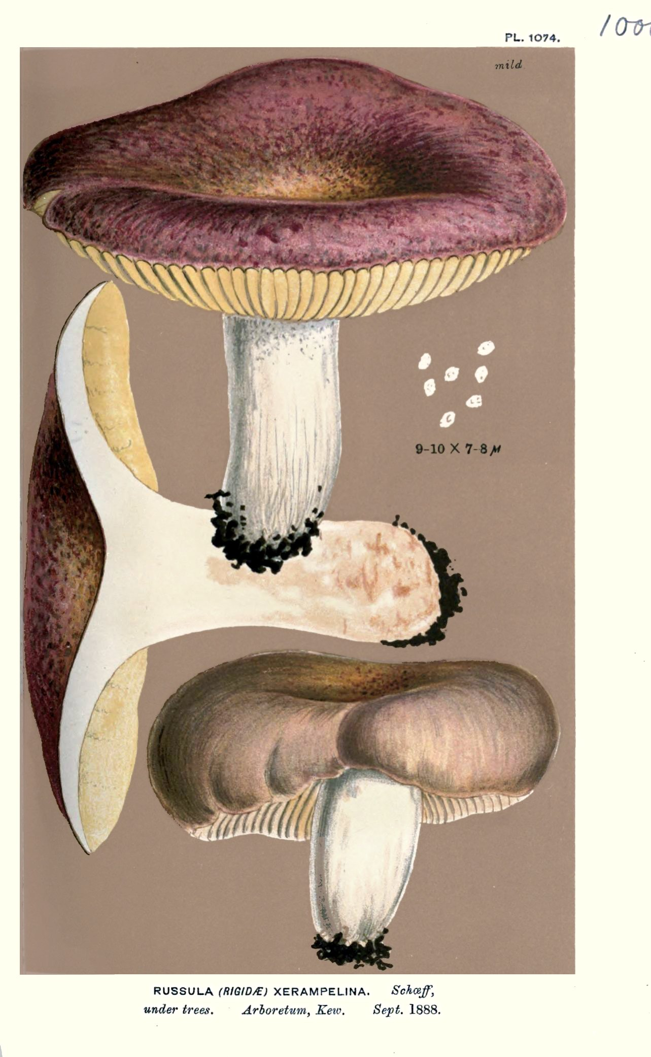 Ilustrations of British Fungi (Hymenomycetes), to serve as an atlas to the "Handbook of British Fungi". by Mordecai Cubitt Cooke; Published 1881 by Williams and Norgate in London. (English). Plate 1074. Page 325 RUSSULA (RIGIDAE) XERAMPELINA. Schaeff. under trees. Arboretum, Keto. Sept. 1888.